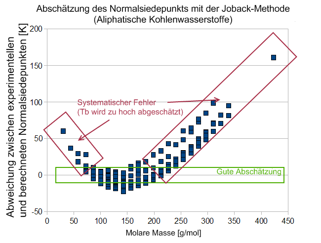 Diagram shows the deviations between predicted normal boiling points (Joback method) and experimental data taken from the Dortmund Data Bank. German Descriptions.